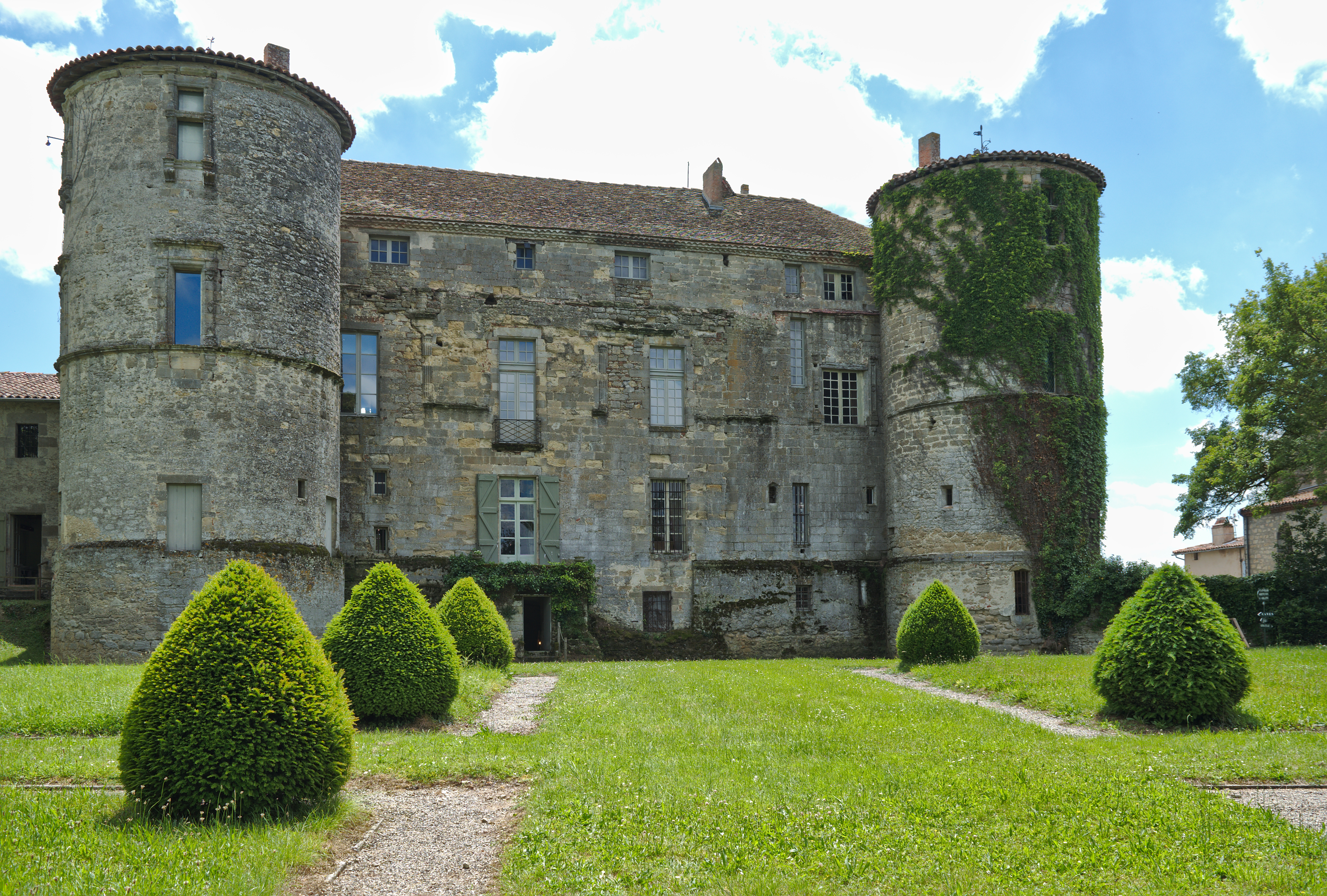 Castle of Loubens-Lauragais, seen from NNE